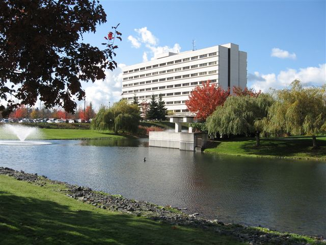 Madigan Army Medical Center located on Joint Base Lewis-McChord in Tacoma Wa.